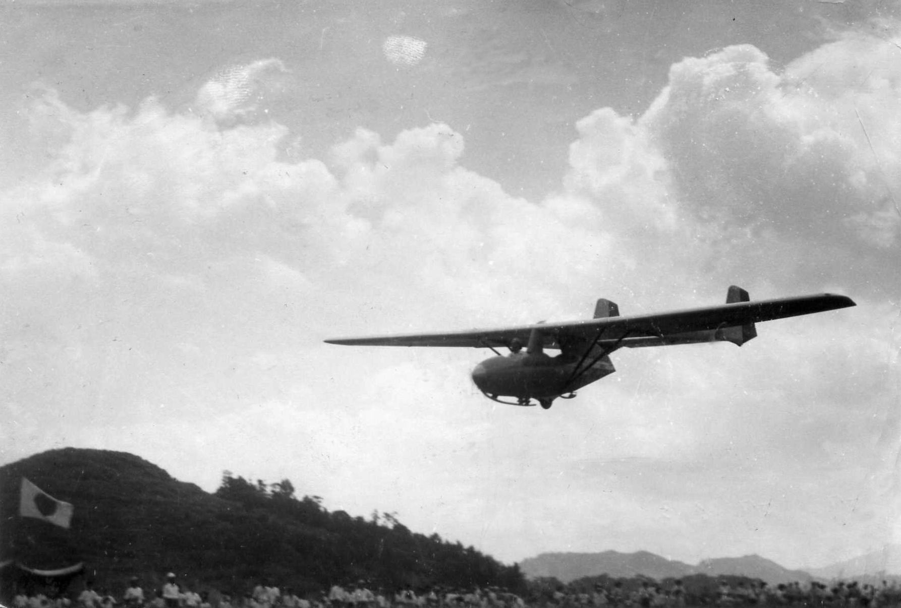 Glider SM-206 demonstration flight